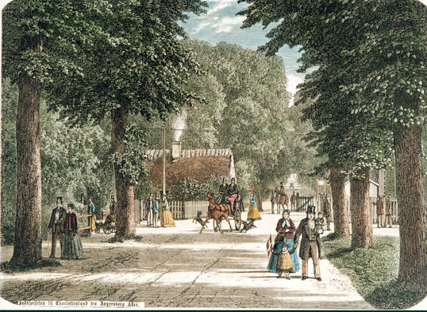 A hand-coloured illustration from Illustreret Tidende showing a scene from Charlottenlund Skov North of Copenhagen, Denmark